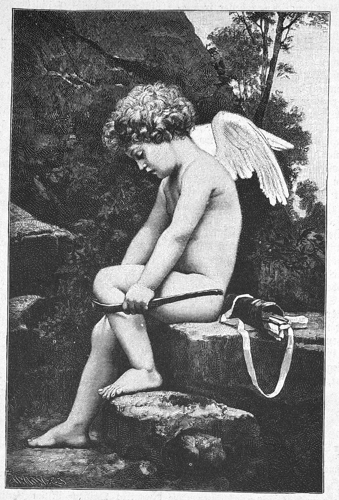 Page 708 from journal Die Gartenlaube for 1894.Extracted image (if any): File:Die Gartenlaube (1894) b 708.jpg - hi res, ~2.5 MB.